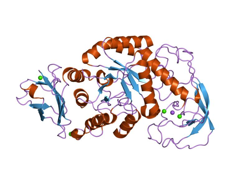 Cartoon representation of the molecular structure of protein registered with 1e3x code.